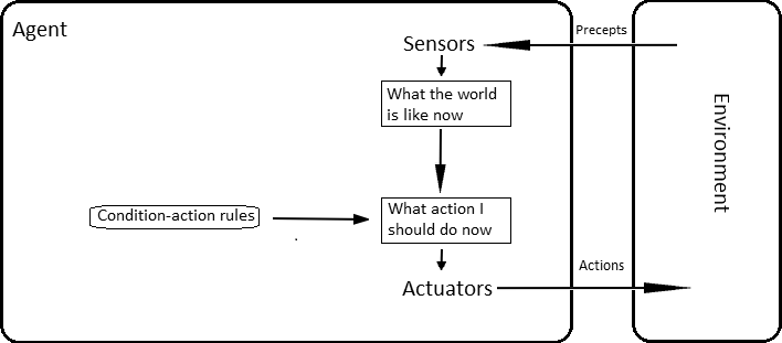 Schematic diagram of a simple reflex agent.